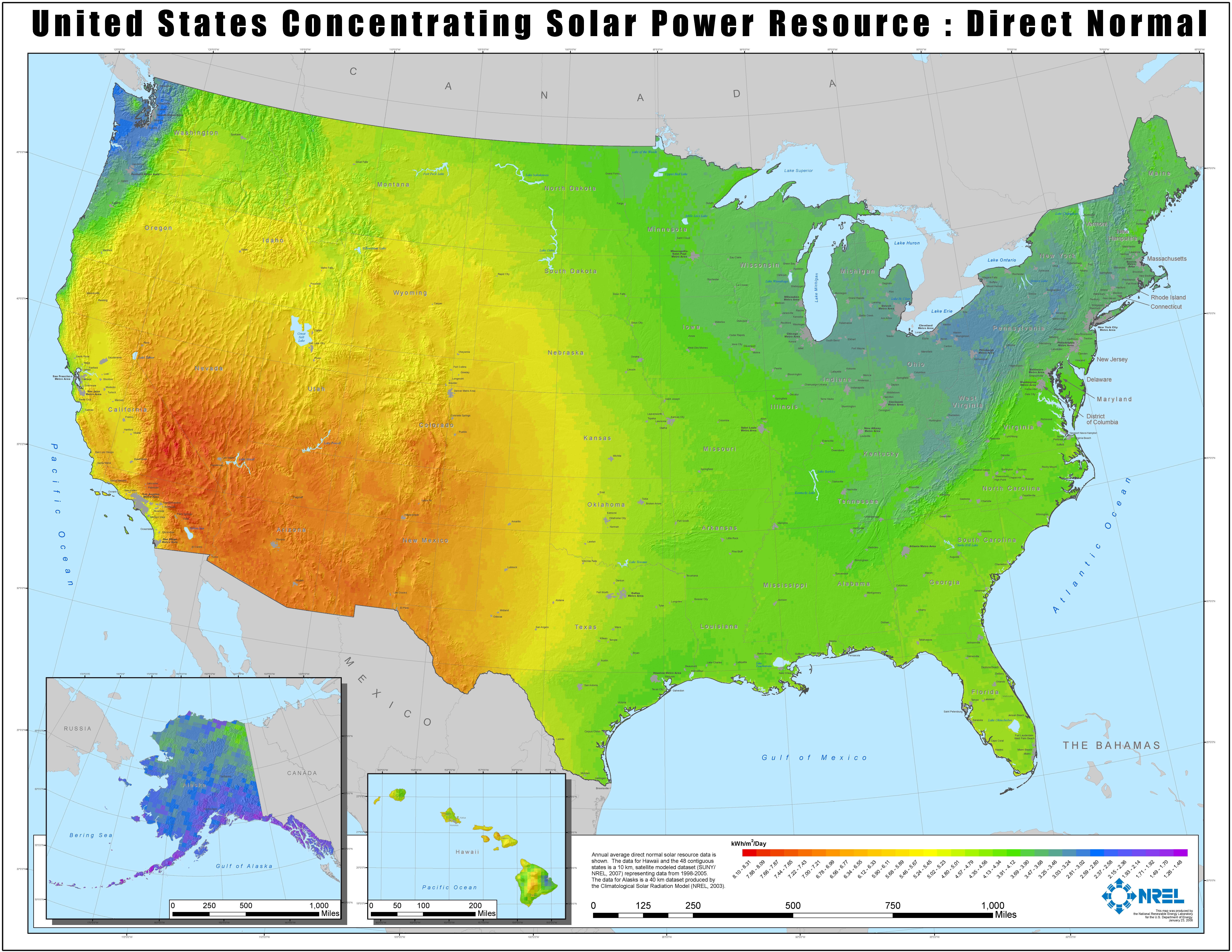 U.S. Solar Resource Map - concentrating solar power (CSP) resource potential for the United States - High Resolution (poster size) (JPG 5.63 MB)